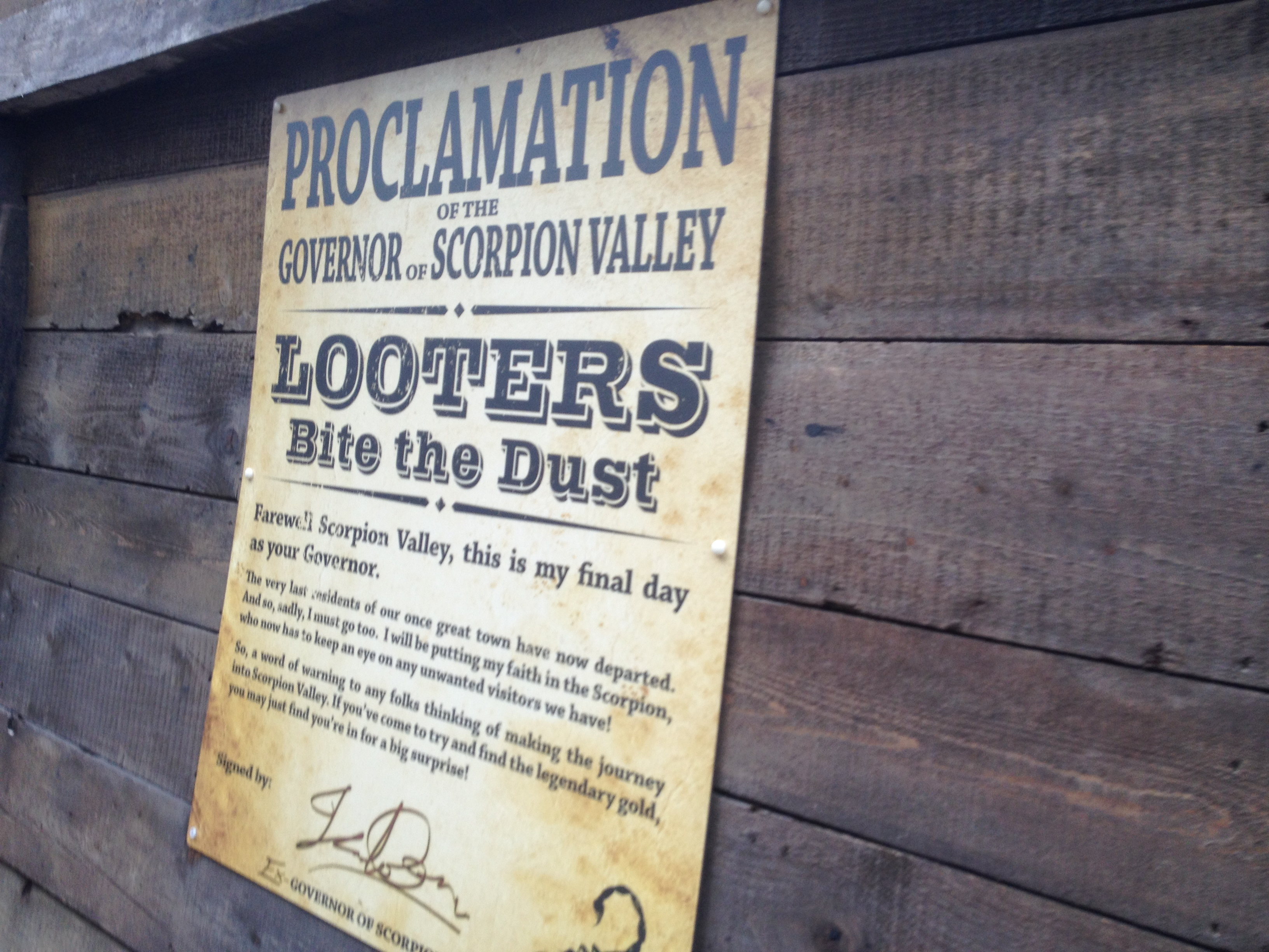 Notice board theming in the queue for the Scorpion Express rollercoaster at Chessington World of Adventures, Surrey.